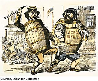 Caricature from 1850, reprinted in Smithsonian Magazine in 1996. Irish immigrant in whiskey barrell and German immigrant in beer barrell run off with ballot box in US election.